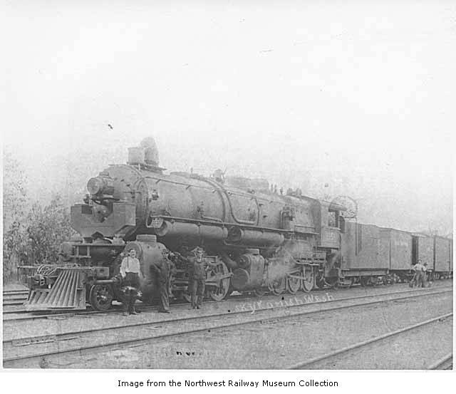 Description: Great Northern Railway steam locomotive #1951 pauses for a photo at Skykomish, Washington. This 1910-built 2-6-8-0 Baldwin Mallet assisted trains over Washington's mountain grades. The class M1 Mallet had 55 inch diameter drivers & 350,000 lbs on drivers. View source image . More information on the commercial rights for this photo . Part of King County Snapshots University of Washington Libraries . Brought to you by IMLS Digital Collections and Content . Unrestricted access; use with attribution.